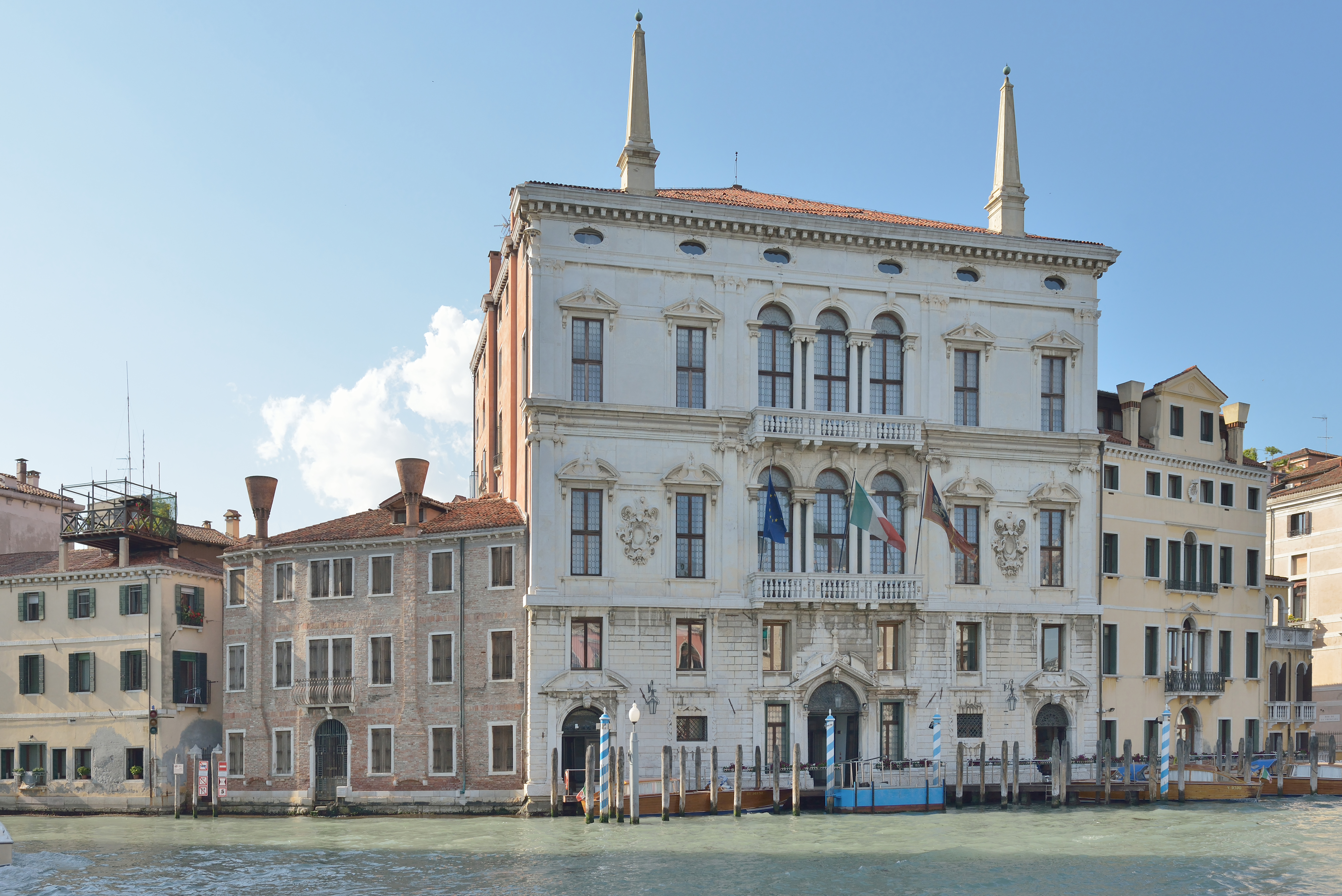 Palazzo Balbi on the Canal Grande in Venice.